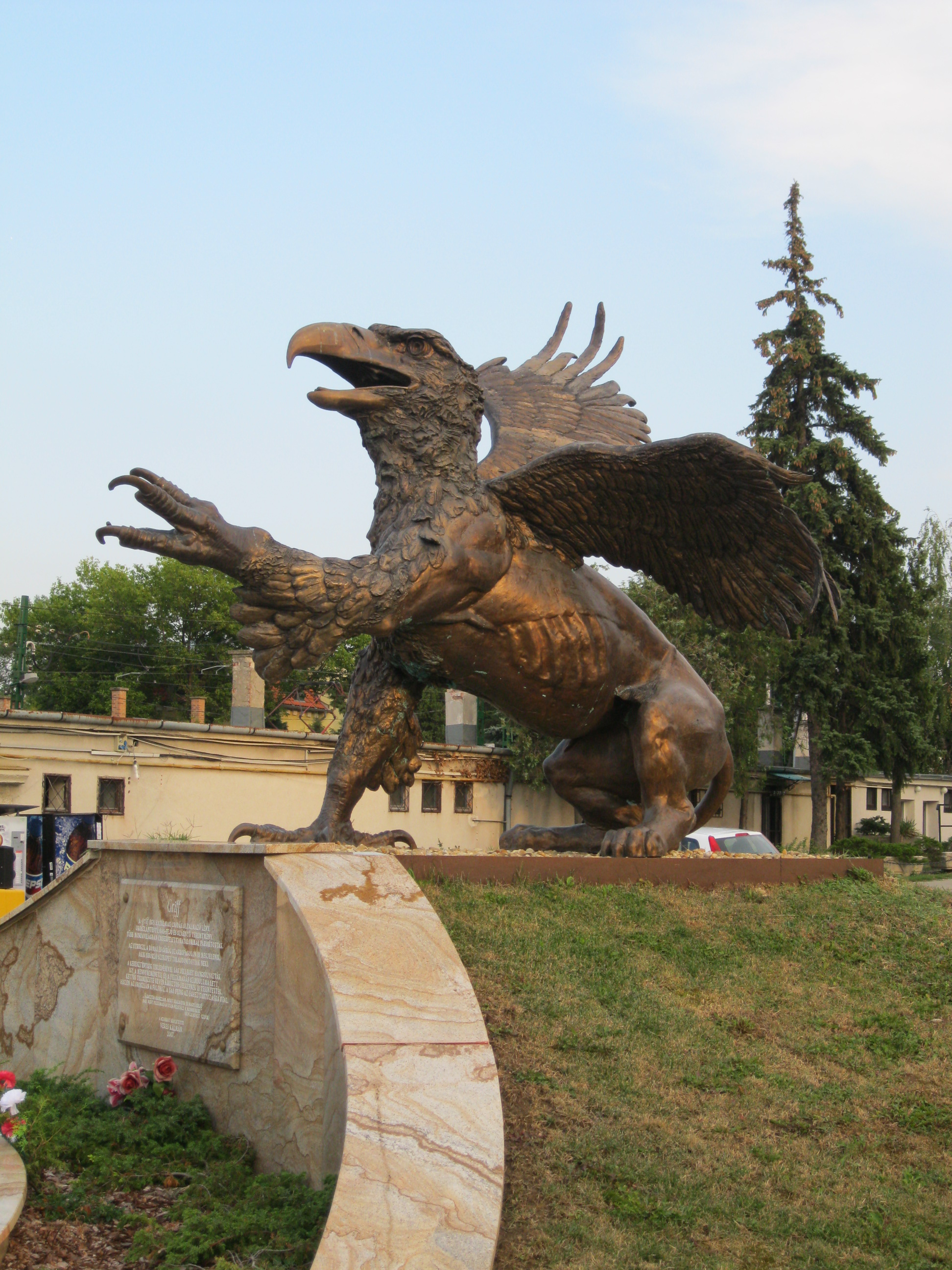 Griffin statue in Farkasréti Cemetery. Sculptor: Kálmán Veres. Erected in 2007.